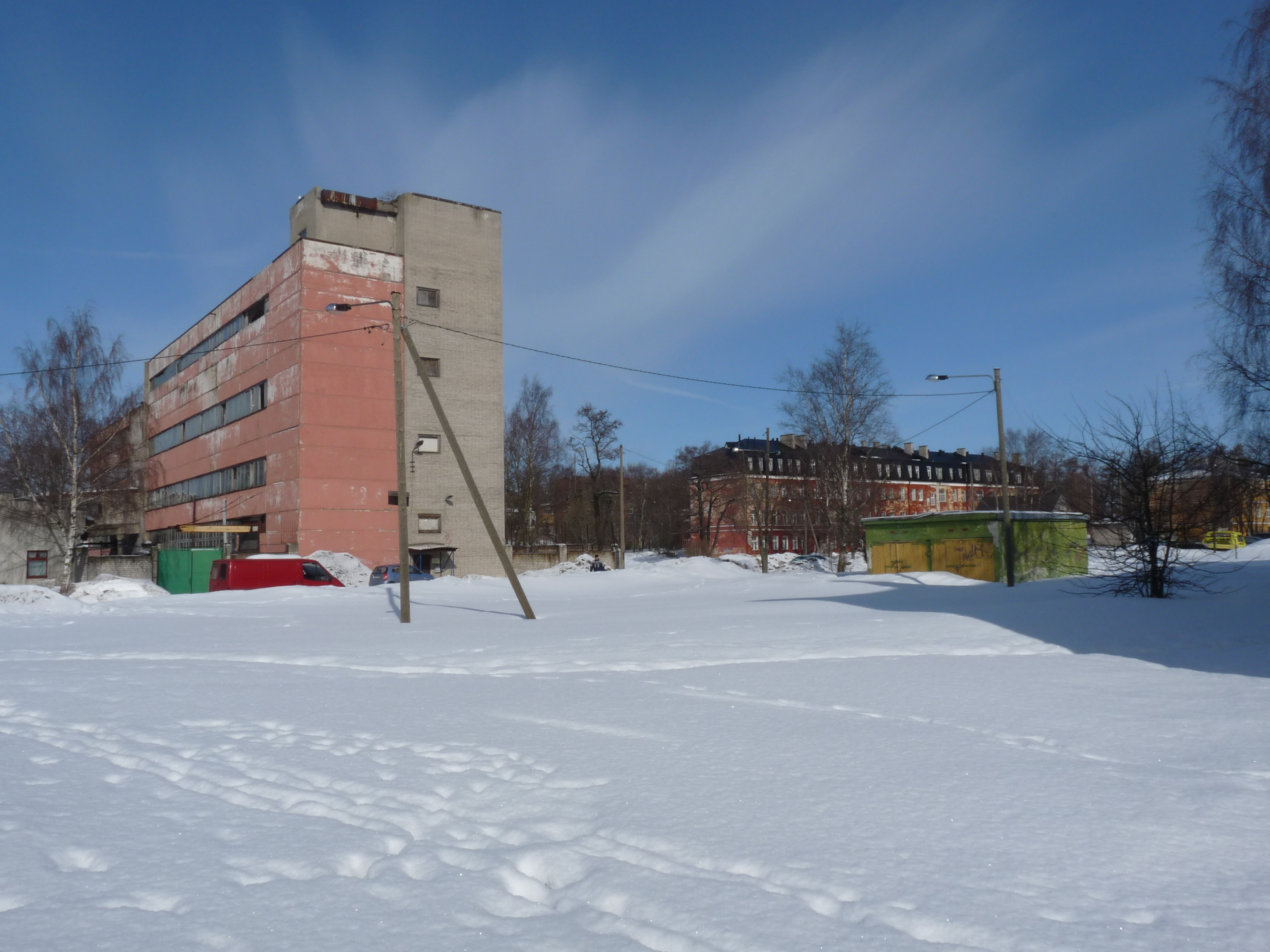 Ankru street in Tallinn